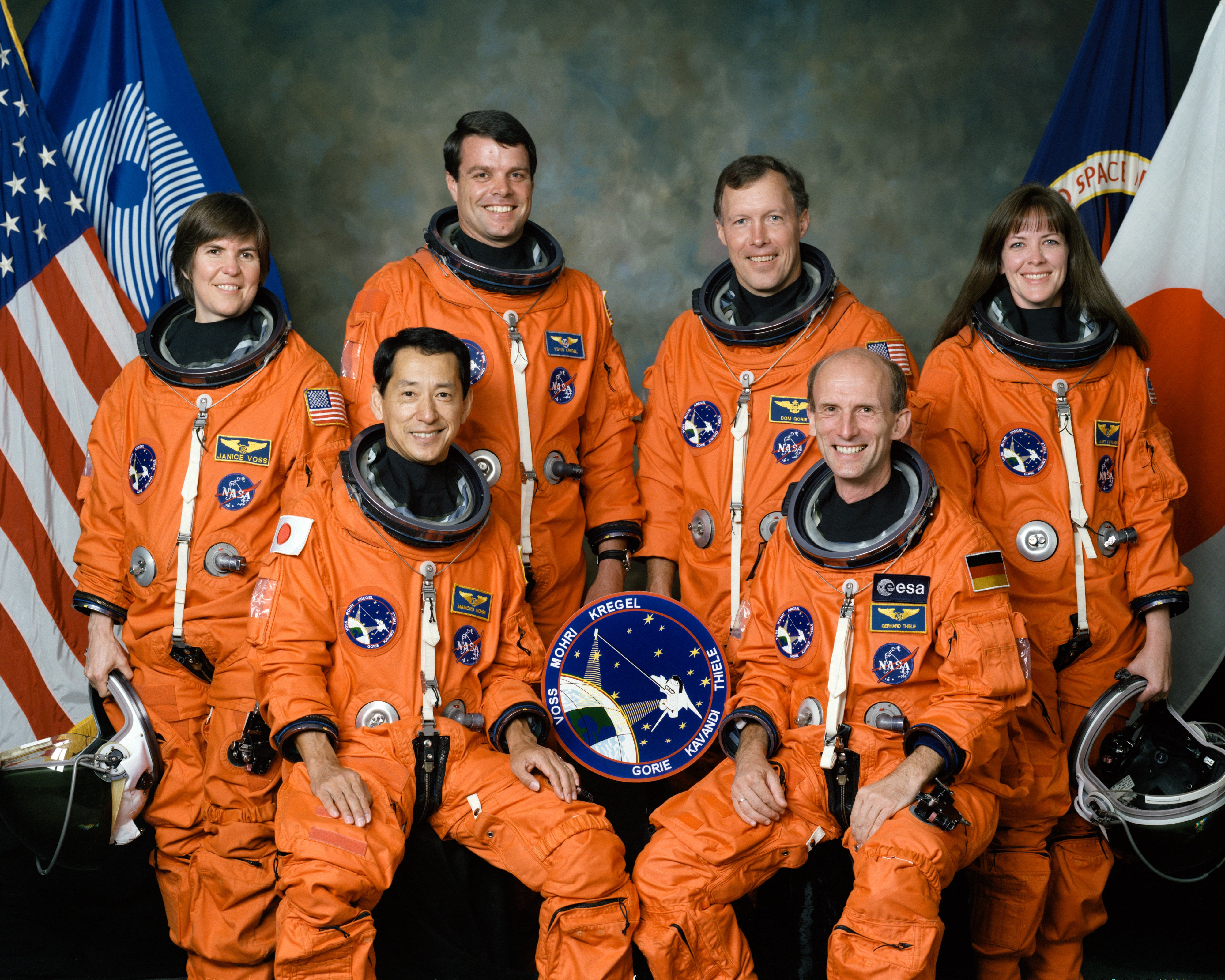 An international crew assigned to STS-99 takes a break from training to pose for the traditional crew portrait at NASA's Johnson Space Center (JSC). In front are international astronauts Mamoru Mohri and Gerhard P.J. Thiele, both mission specialists. In back are astronauts Janice Voss, mission specialist; Kevin R. Kregel, mission commander; Dominic L. Gorie, pilot; and Janet L. Kavandi, mission specialist. Mohri represents Japan's National Space Development Agency (NASDA) and Thiele represents the European Space Agency (ESA). The mission is scheduled as an eleven-day flight for late summer/early autumn of this year.